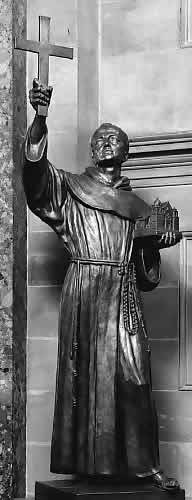 Fray Junípero Serra La imagen fue tomada de la siguiente dirección Existe una nota en la página web del Capitolio de los Estados Unidos de América que dice lo siguiente: How can I obtain a photograph from the Architect of the Capitol? Photographs from the records of the Architect of the Capitol may be used for scholarly or educational purposes; they are not made available for promotional or advertising purposes. For information about ordering images and permission to publish, please send a letter identifying the image that you would like to use and the purpose for which you wish to use it to: The Honorable Alan M. Hantman, FAIA Architect of the Capitol U.S. Capitol Washington, D.C. 20515 He procedido a enviar una misiva solicitando permiso para publicar la imágen en Wikipedia, estoy en espera de respuesta. La respuesta la encontré en Wikipedia en idioma inglés, es genérico para todas las imágenes tomadas desde aquí: Un ejemplo: This image is a work of an employee of the Architect of the Capitol employee, taken or made during the course of the person's official duties. As a work of the U.S. federal government, all images created or made by the Architect of the Capitol are in the public domain, with the exception of classified information. Copyright: Public domain US Government work. --Scalif 22:10 25 ene, 2005 (CET)